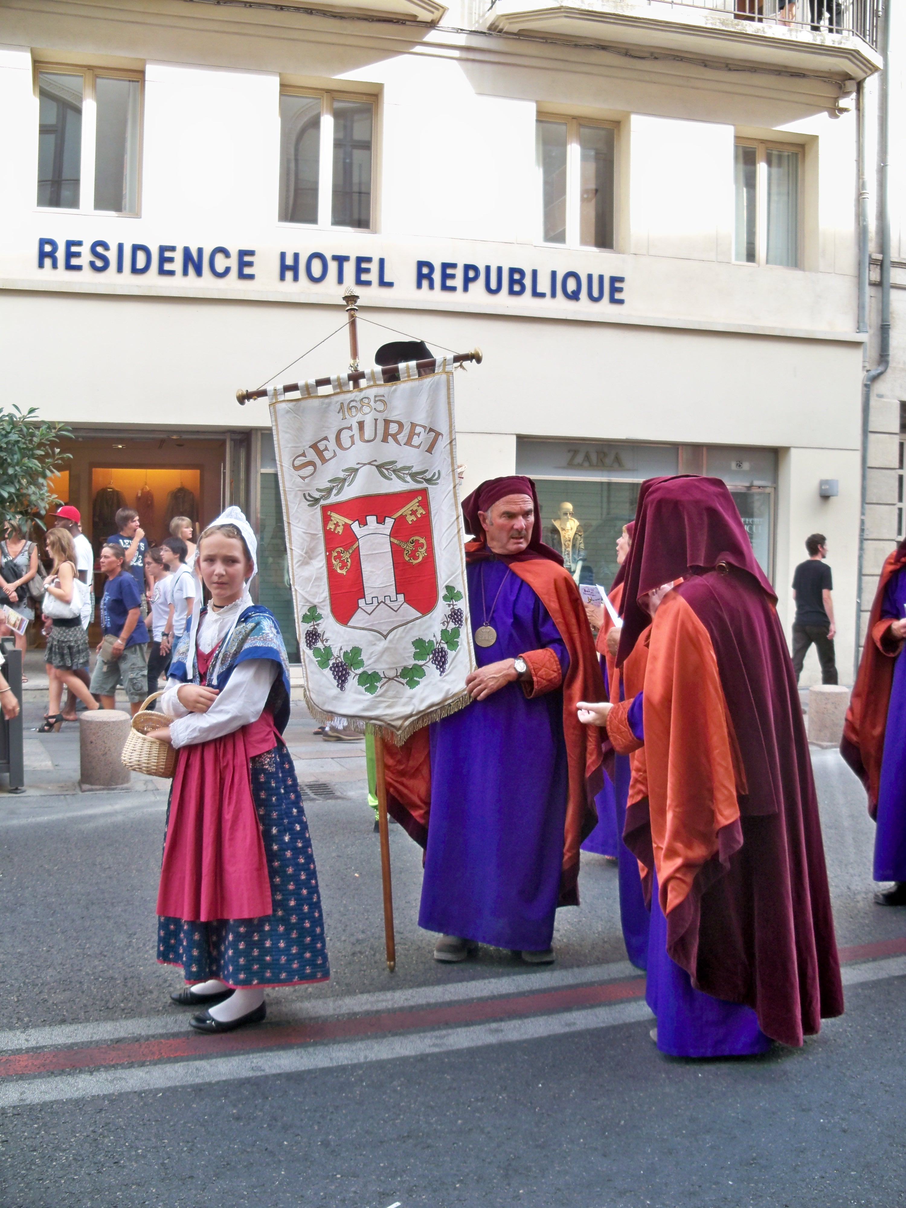 Banner of the Brotherhood Bacchus de Séguret (Vaucluse, France)